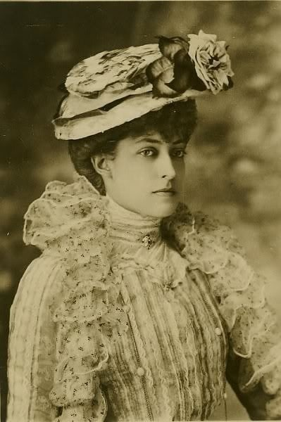 Princess Victoria of the United Kingdom (1868-1935)